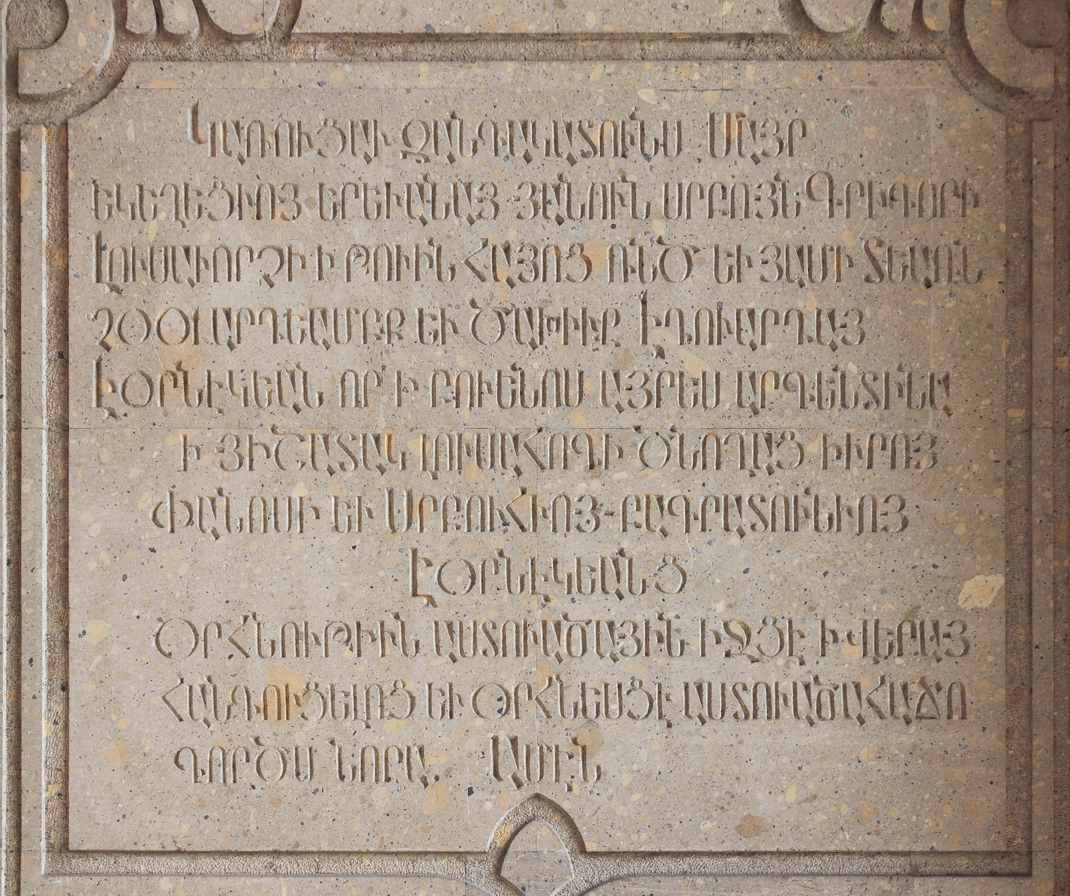 The stone slab with an inscription in Armenian language. Interior of the Saint Gregory the Illuminator Cathedral. Yerevan, Armenia.